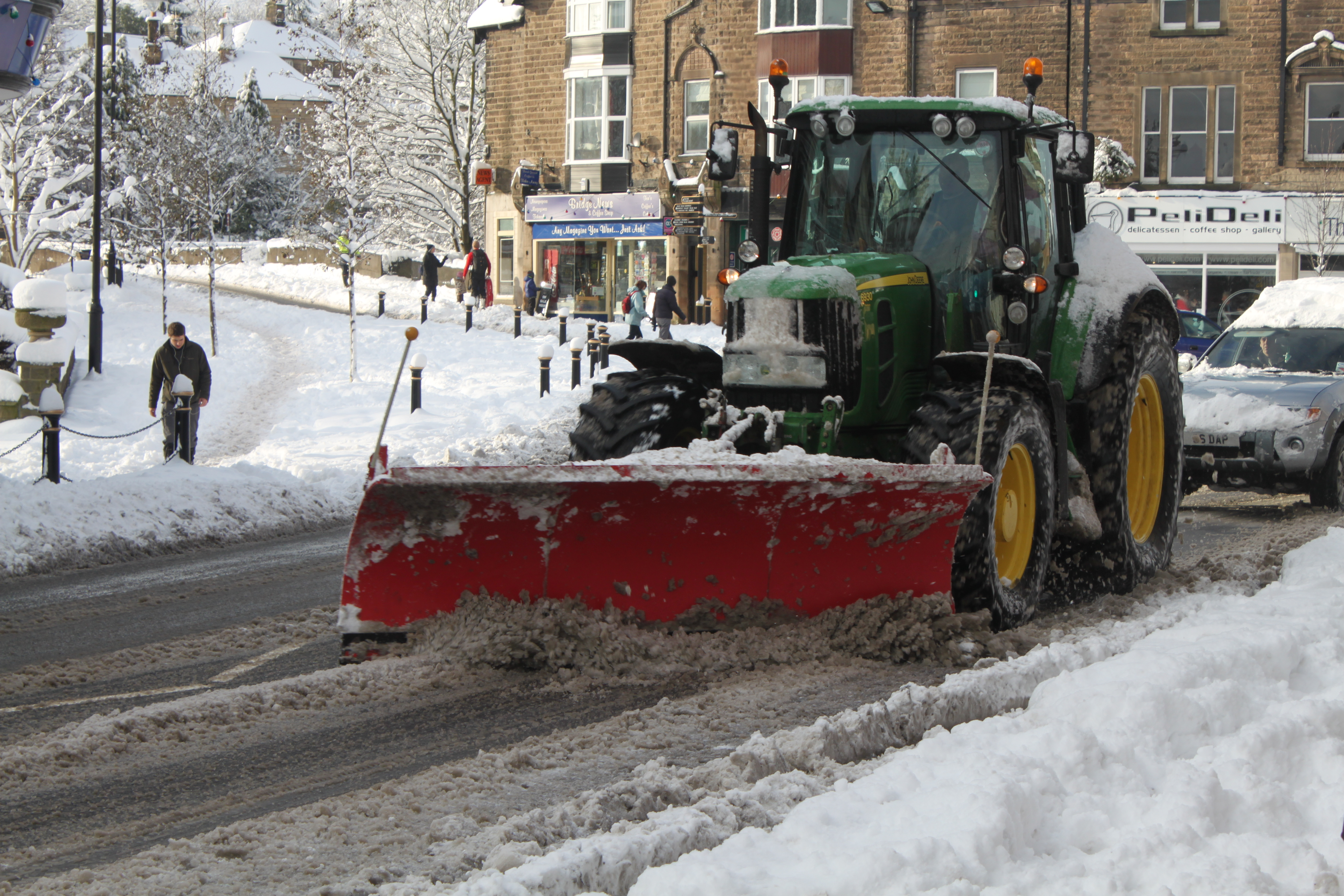 A John Deere 6930 Premium tractor snow-ploughing Crown Square, Matlock, Derbyshire, UK